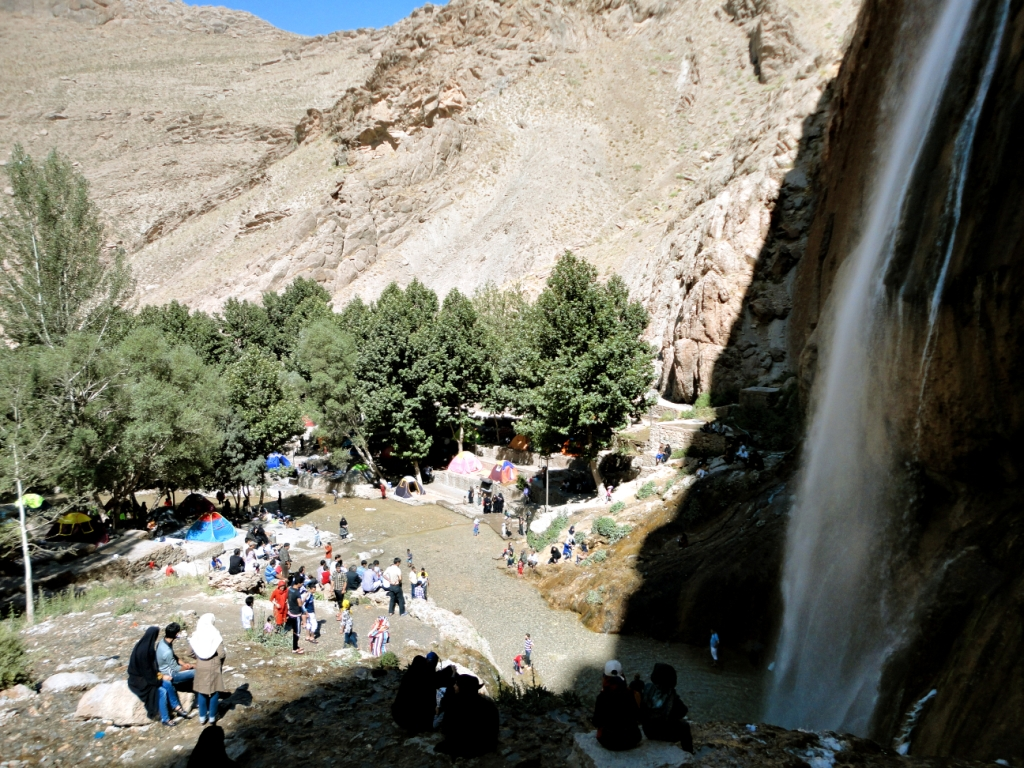 Waterfall Semirom